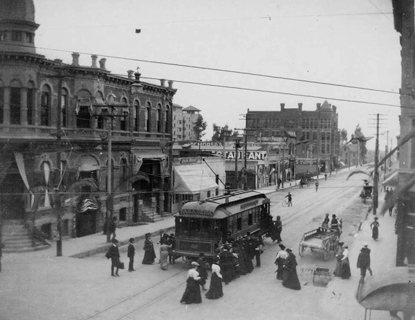 c1903, Fair Oaks Avenue, Pasadena, CA south of Colorado Boulevard.